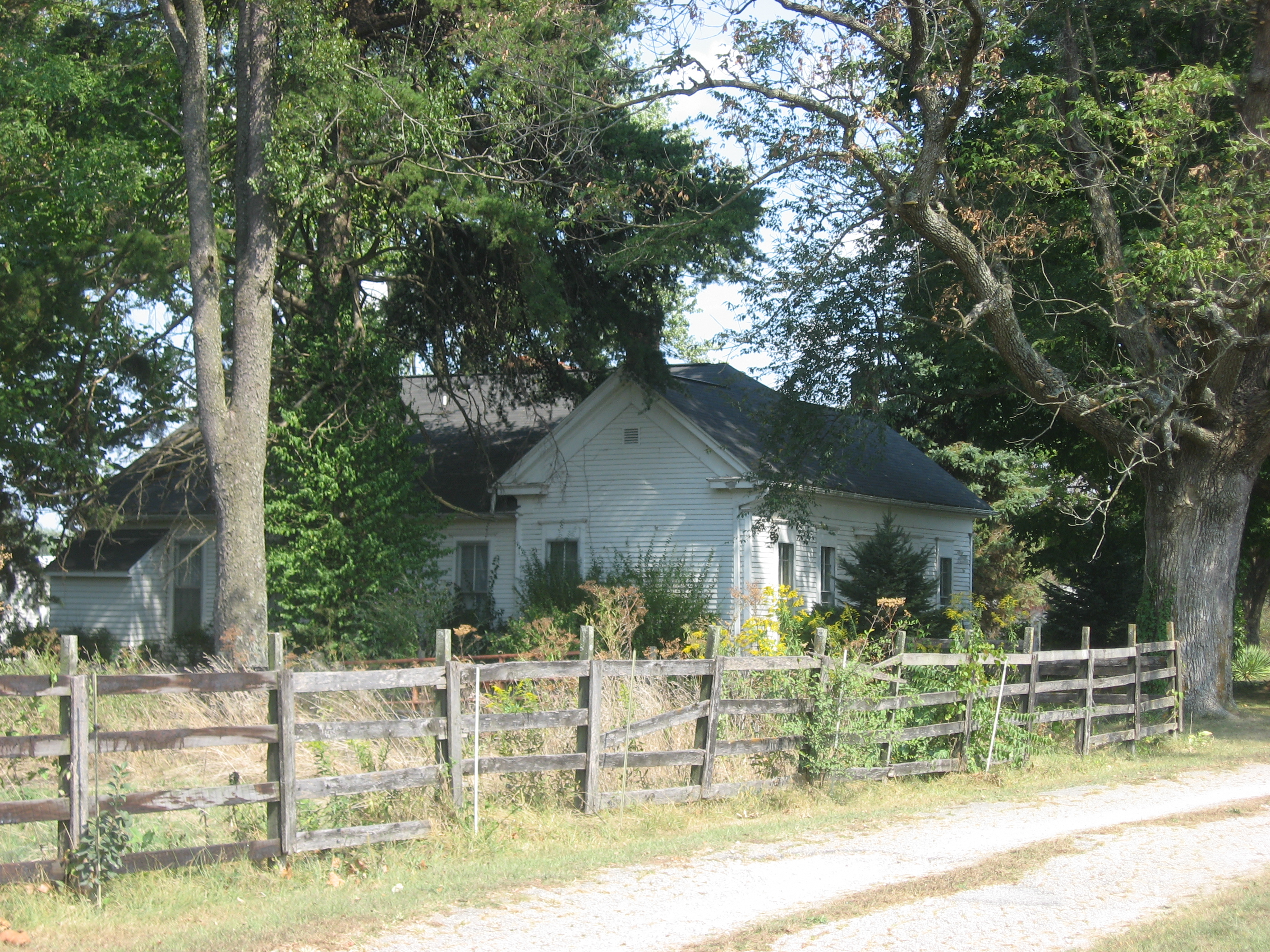 Front of the Leroy Mayfield House, located at 110 N. Oard Road west of Bloomington in Richland Township, Monroe County, Indiana, United States. Built in 1830, it is listed on the National Register of Historic Places.